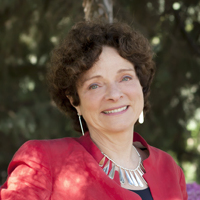 Helen Blau photo by Amparo Garrido